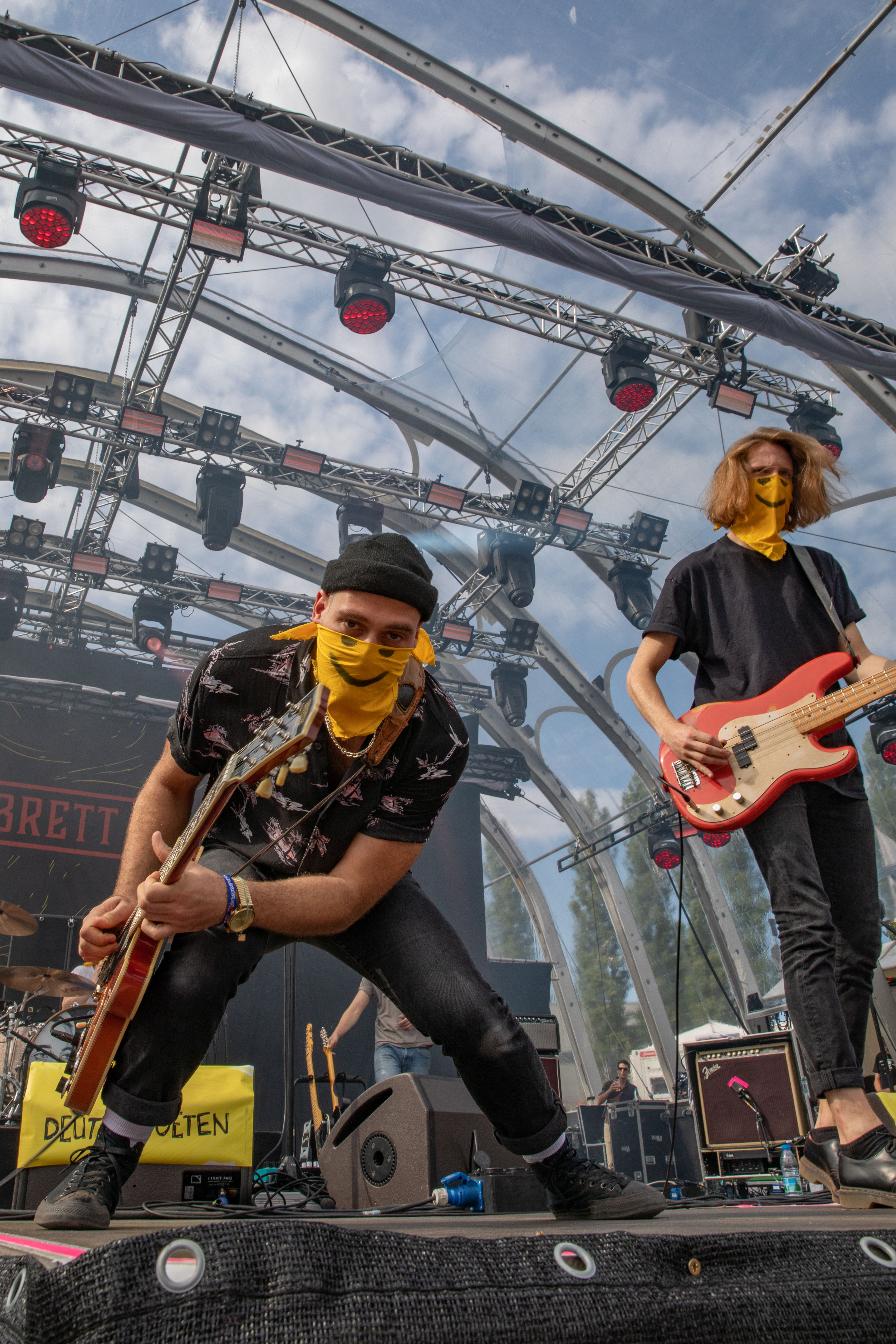 Brett at Fritz DeutschPoeten 2018